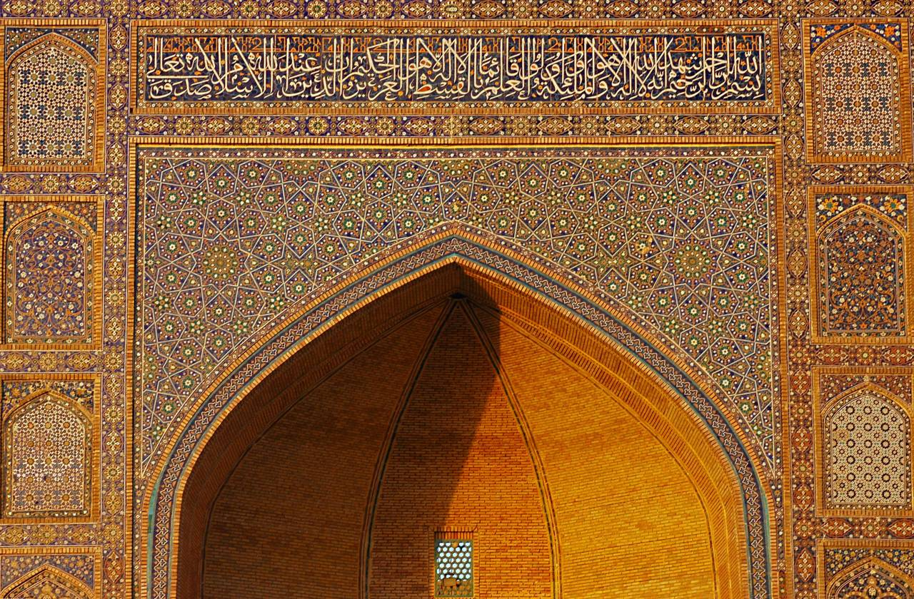 Summary Samarcande Registan Licensing